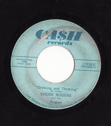 Drinkin' and Thinkin by Chuck Rogers and Rogues [aka Roger Miller], Cash [year unknown]. '